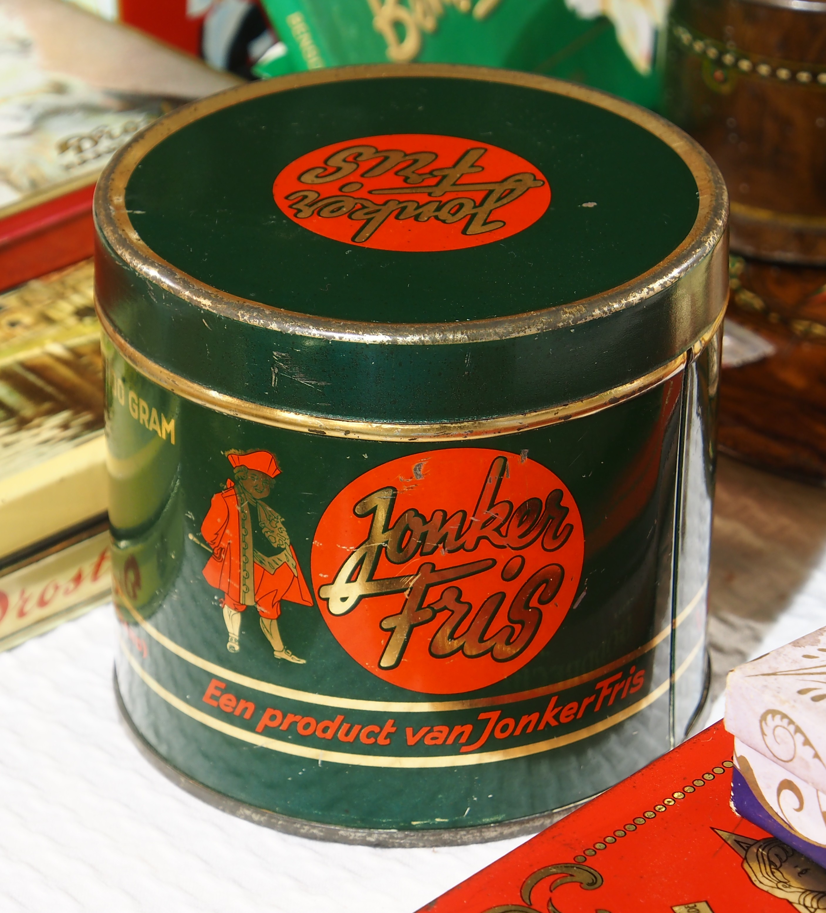 Old product that is not sold/produced anymore!